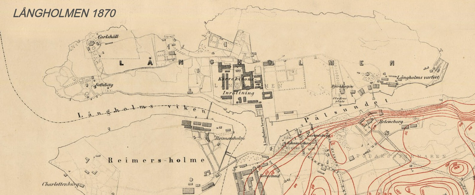 Part of Stockholm city map 1870 (Långholmen)